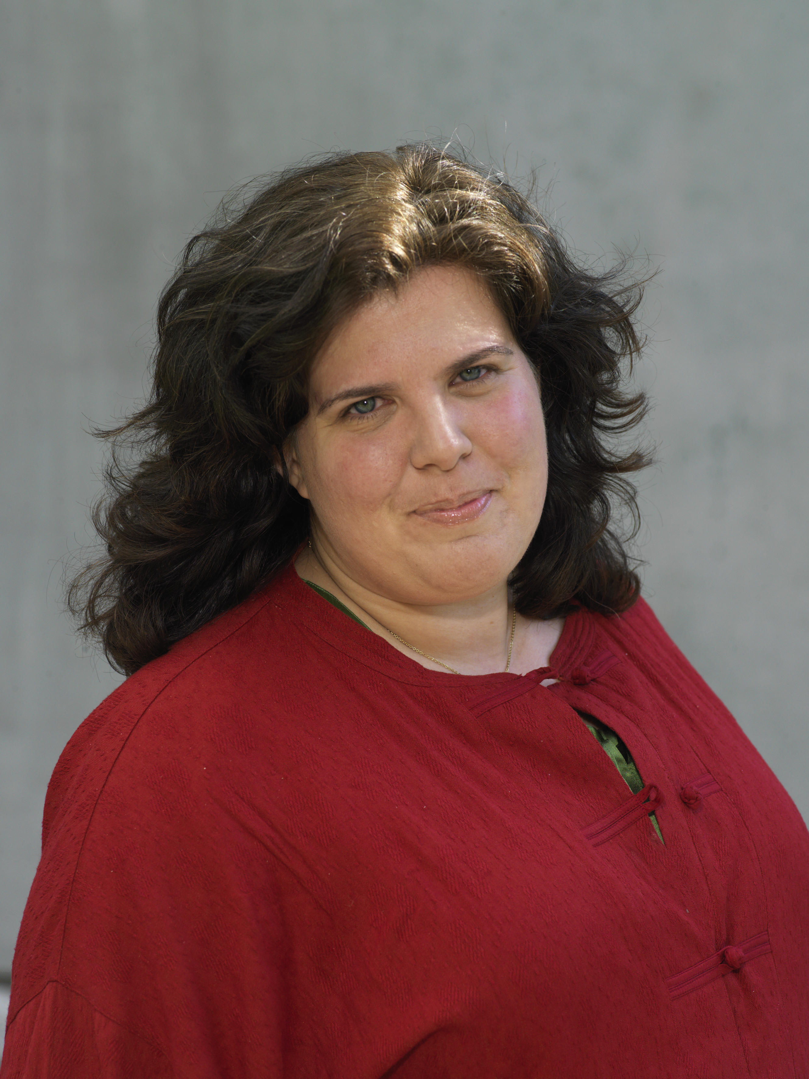 Yvonne Ruwaida, member of the Committee for the Swedish Green Party.